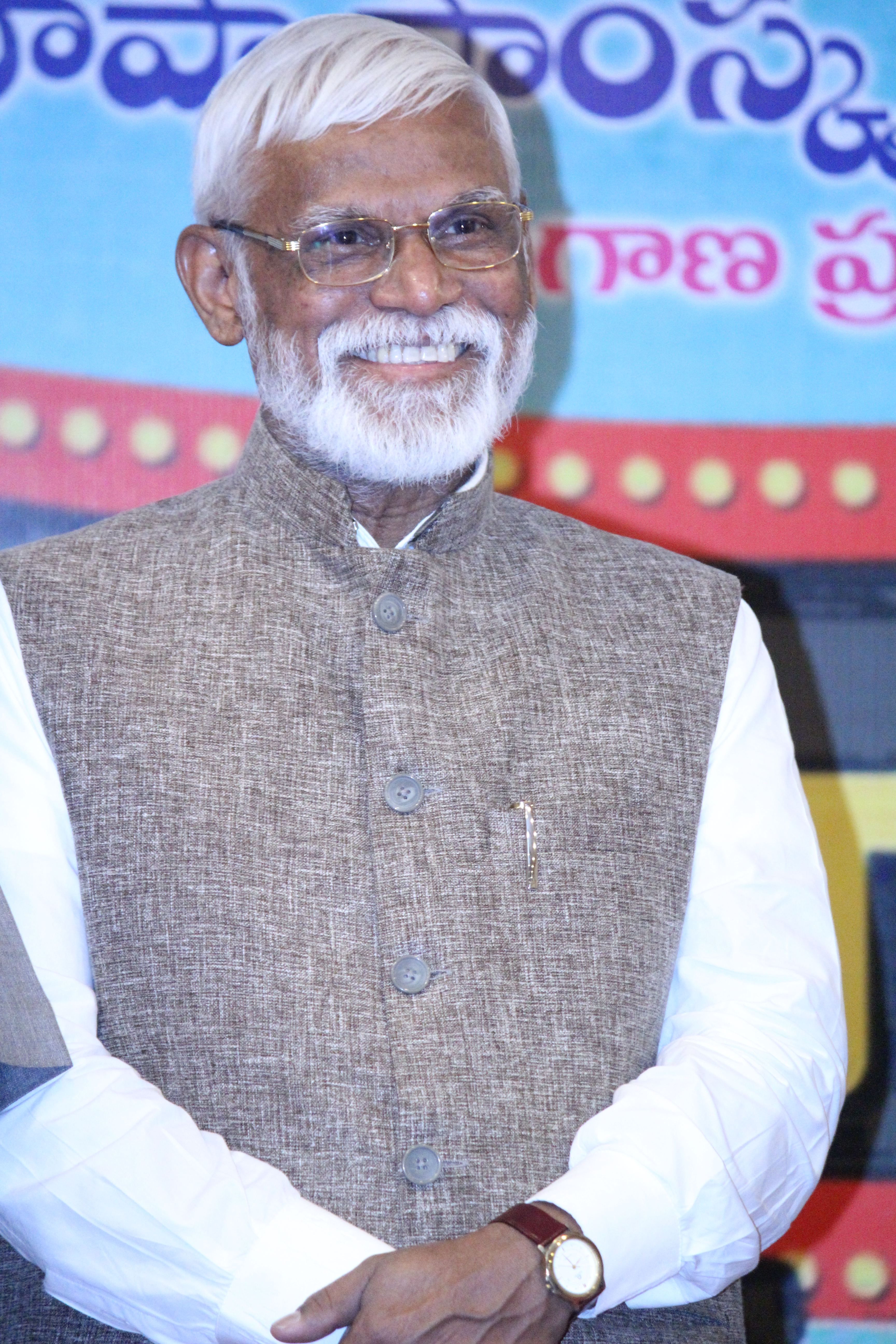 BS Ramulu in Cinivaram, Ravindra Bharathi, Hyderabad